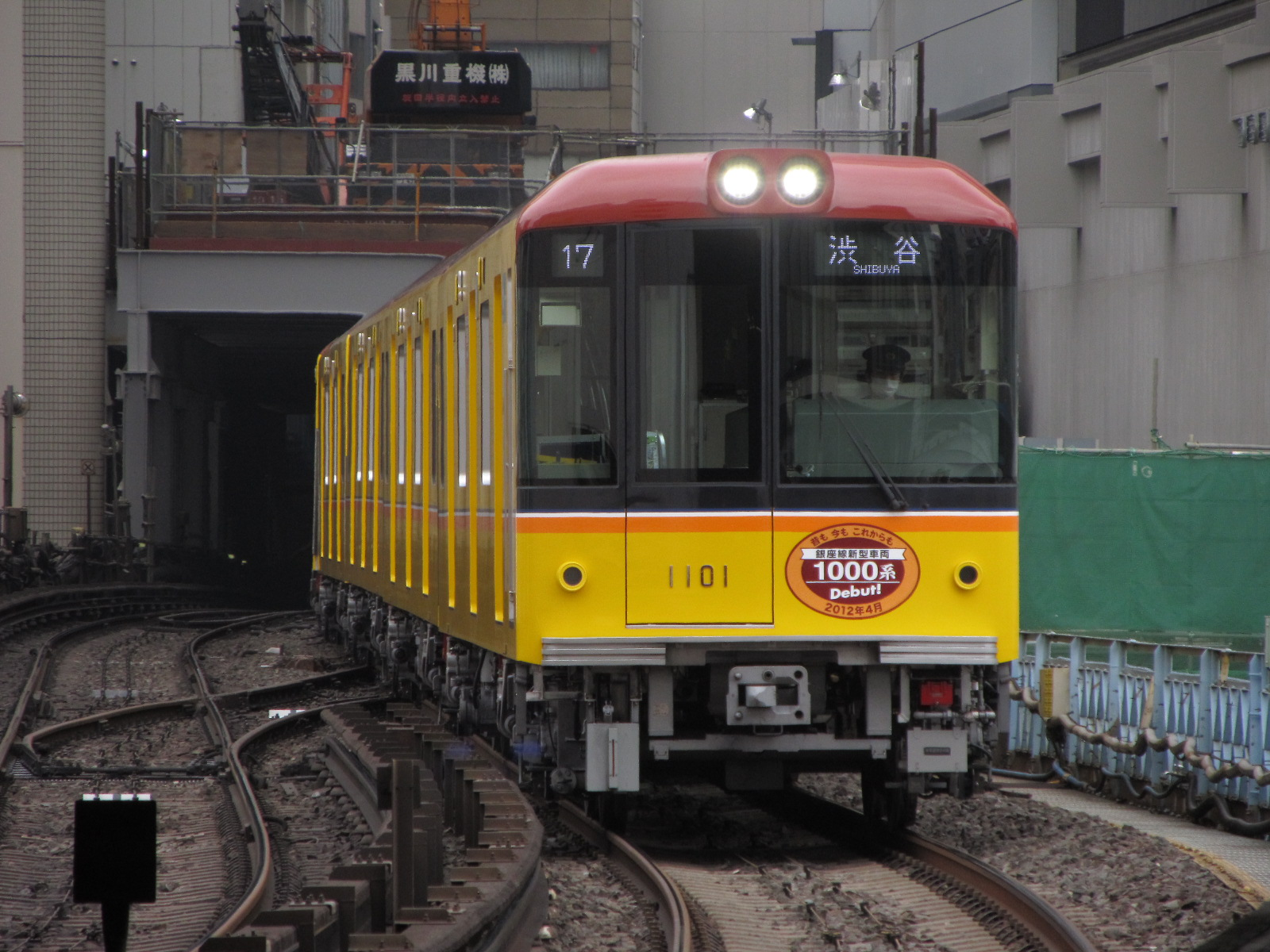 Tokyo Metro 1000 series EMU set 1101 approaching Shibuya Station on the Tokyo Metro Ginza Line